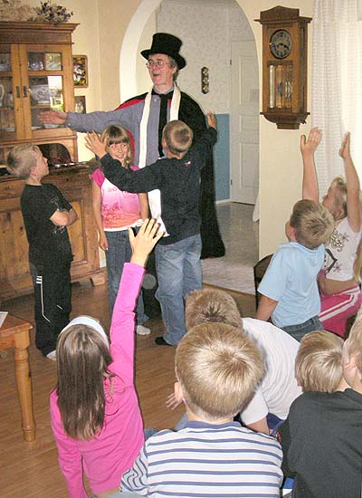 Amateur magician performing for birthday party audience. Photo by uploader.